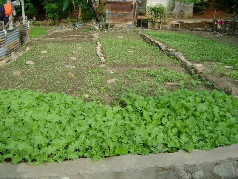 Family vegetable plot in Becora